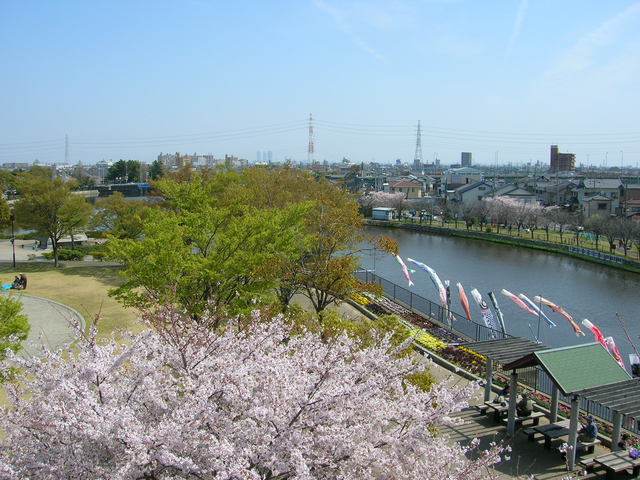 Saya-gawa (Saya river) Loc: Kanie town, Ama District, Aichi Prefecture, Japan. 佐屋川 撮影場所 蟹江町蟹江新田・佐屋川創郷公園